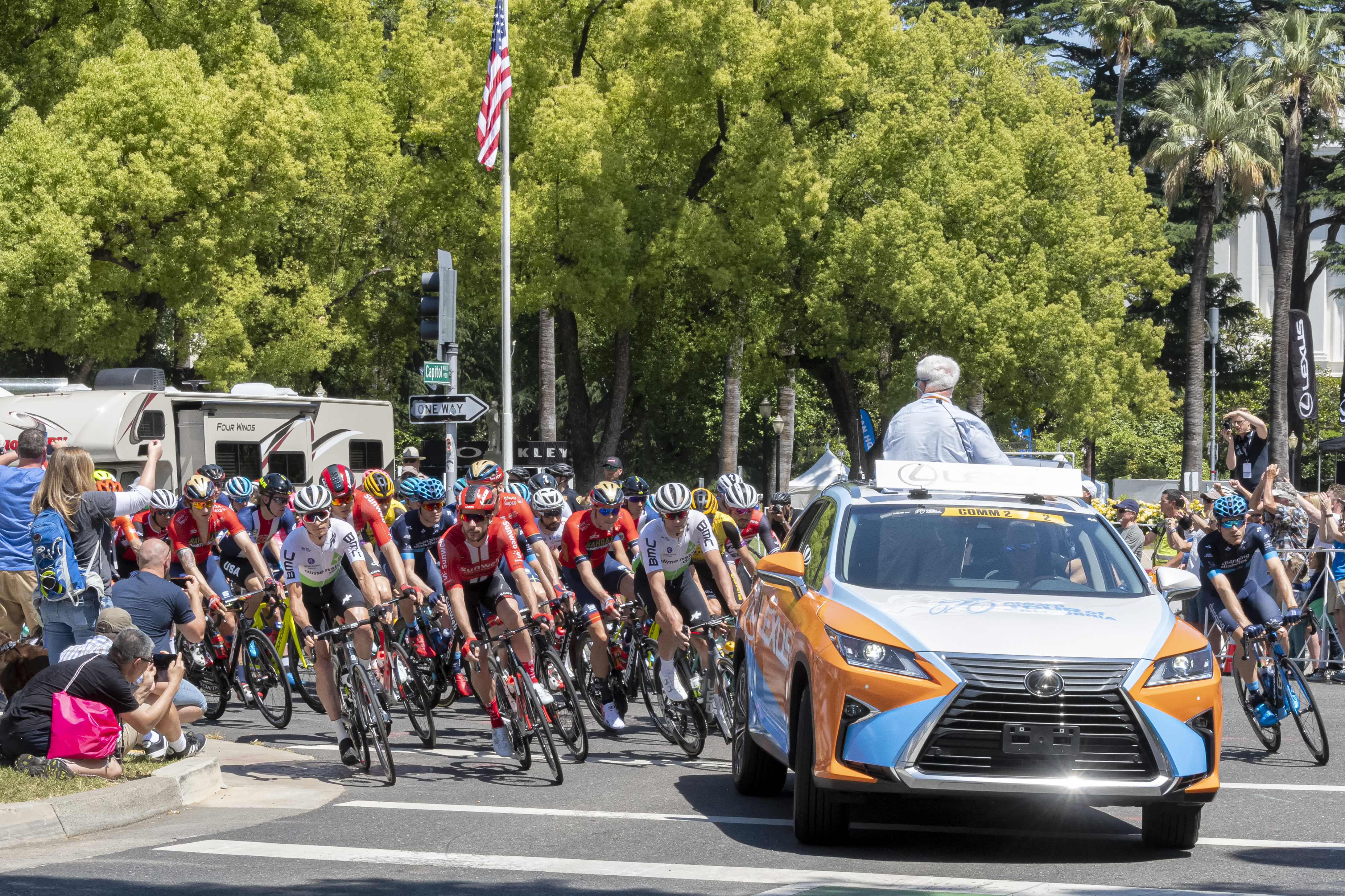 Amgen Tour of California 2019 Stage 1 Sacramento- Sacramento Road Race Sunday May 12 UCI World Tour